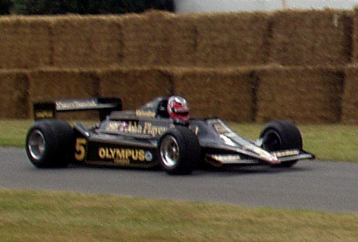 A Lotus 79 (1978) on the hillclimb at the 2006 Goodwood Festival of Speed (cropped photo)